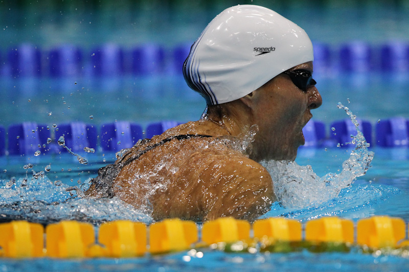 Susana Schnarndorf at the London Olympics in 2012